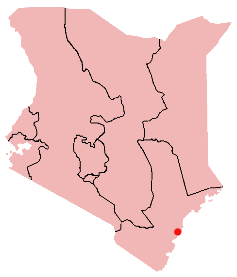 Malindi, Kenya Location Map; created with the GIMP. Made by User:Acntx.